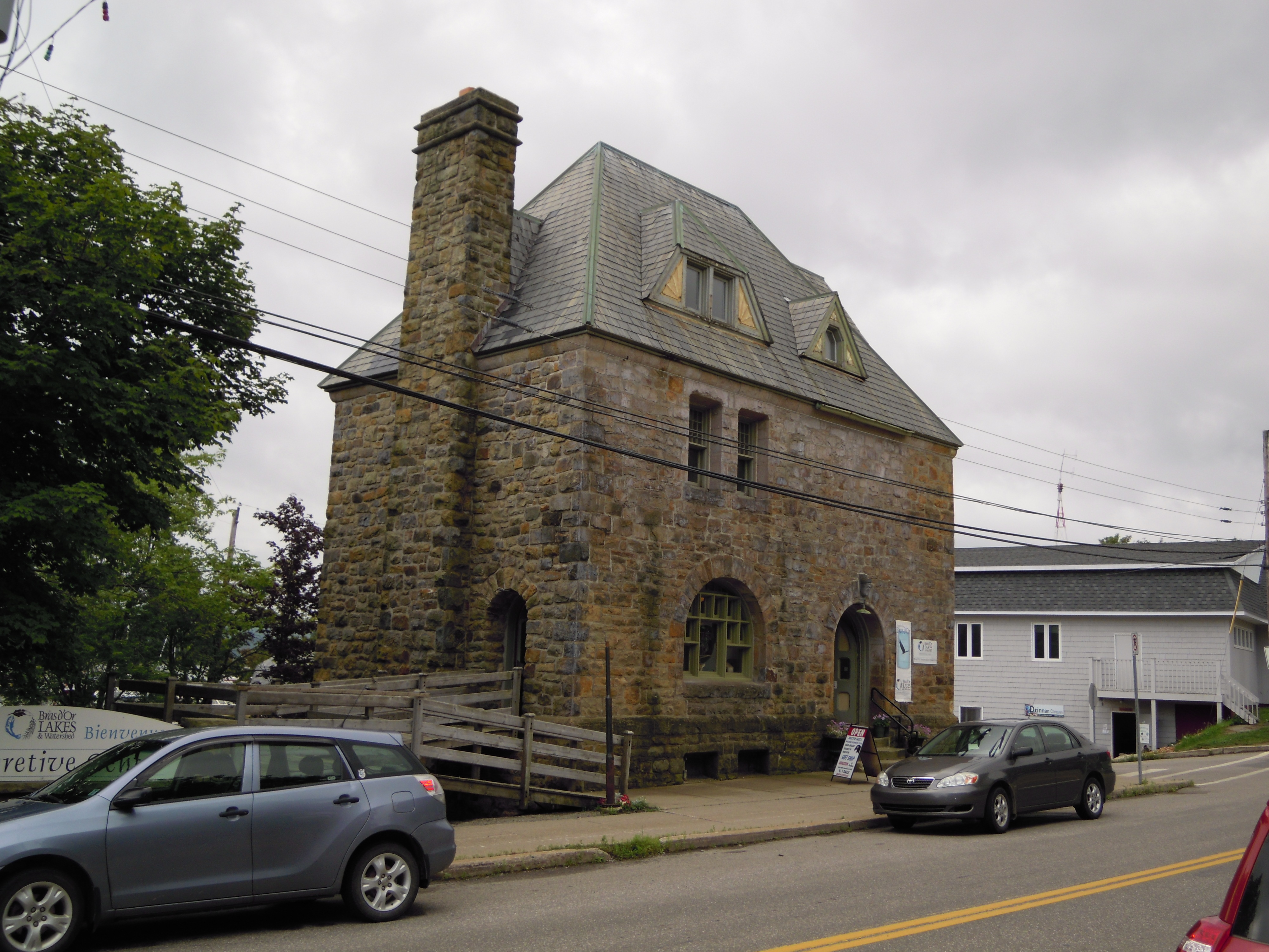 The former Post Office and Customs House (1887), designed by Thomas Fuller, in Baddeck, Cape Breton, Nova Scotia, Canada. Now serving as the premises of the Bras d'Or Lakes & Watershed Interpretive Centre.